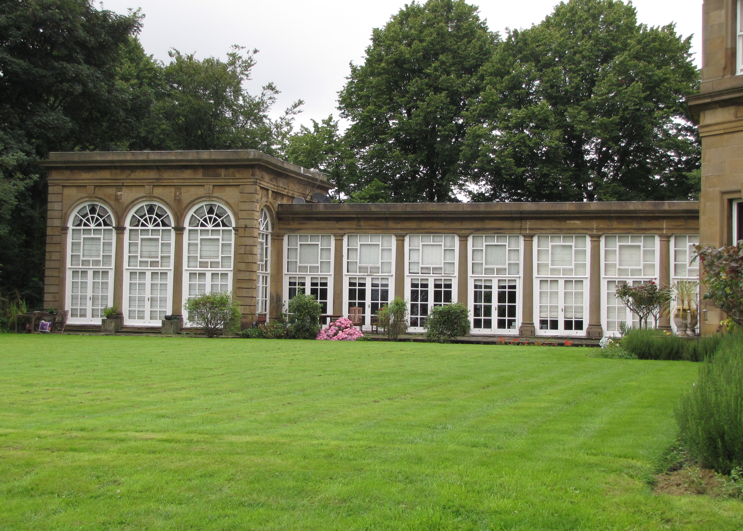 The colonnade (right) and the Orangery (left) at Norton Hall in Sheffield, England